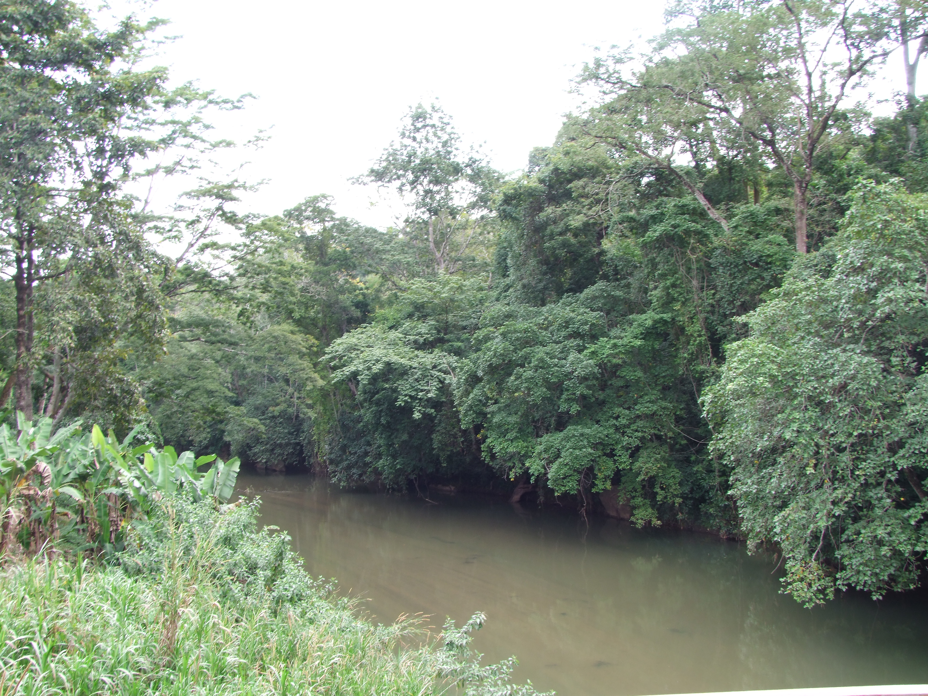 Ruvu River in Kimboza Forest Reserve, Morogoro Region, Tanzania